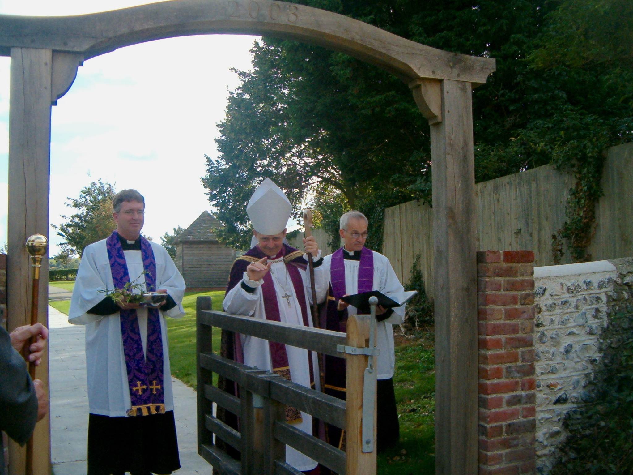 The Bishop of Horsham dedicates the new tapsel gate at St Botolph's Church, Botolphs village, accompanied by the Rector of the church (left) and his domestic chaplain (right).